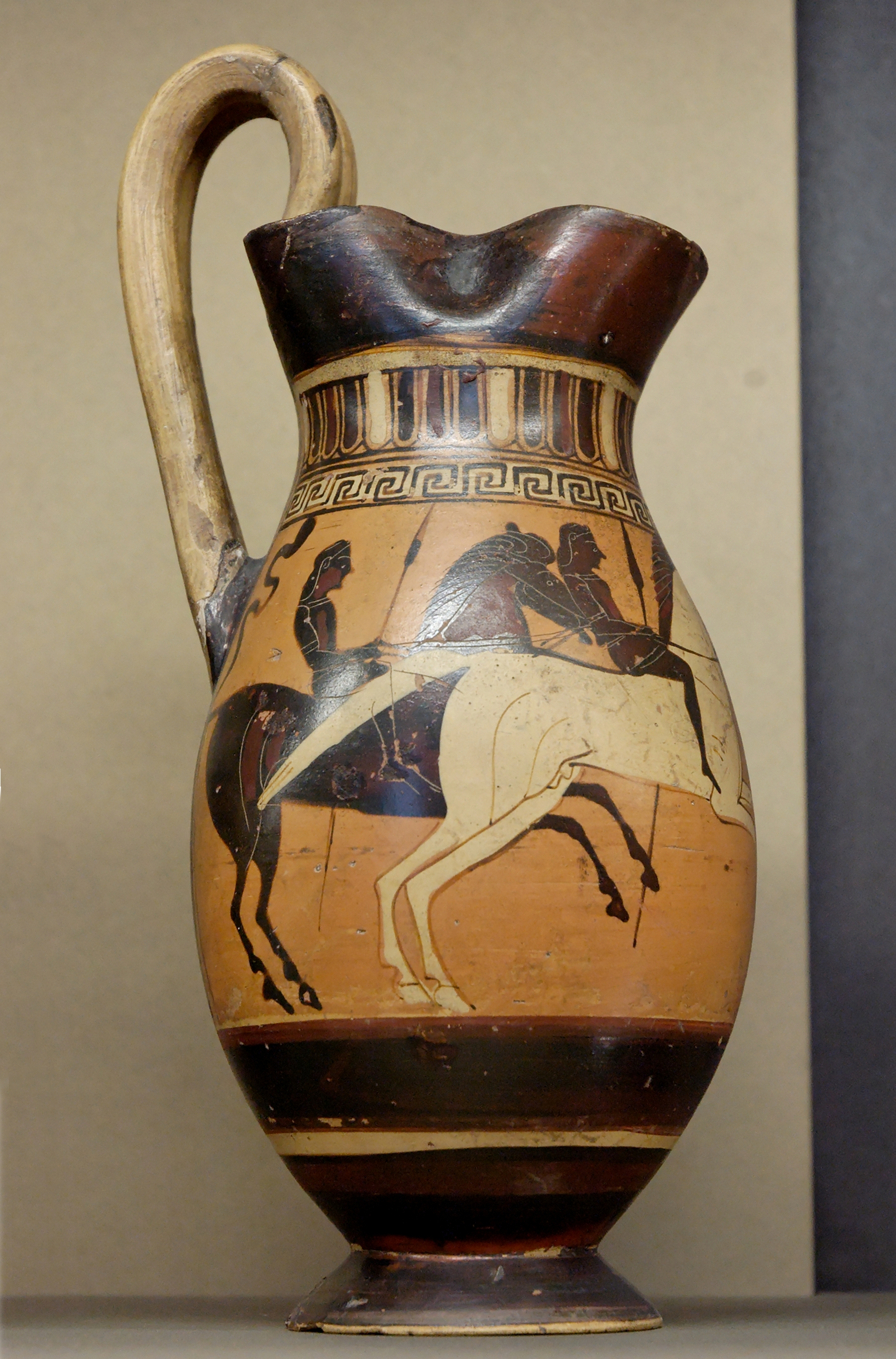 Riders. Late Corinthian olpe.